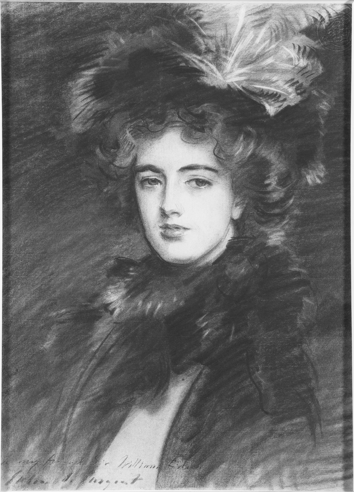 Marjorie Eden, Lady Brooke, later Countess of Warwick (1887-1943) charcoal heightened with white 61 x 44 cm inscribed b.l.: To my friend Sir William Eden signed b.l.: John S. Sargent